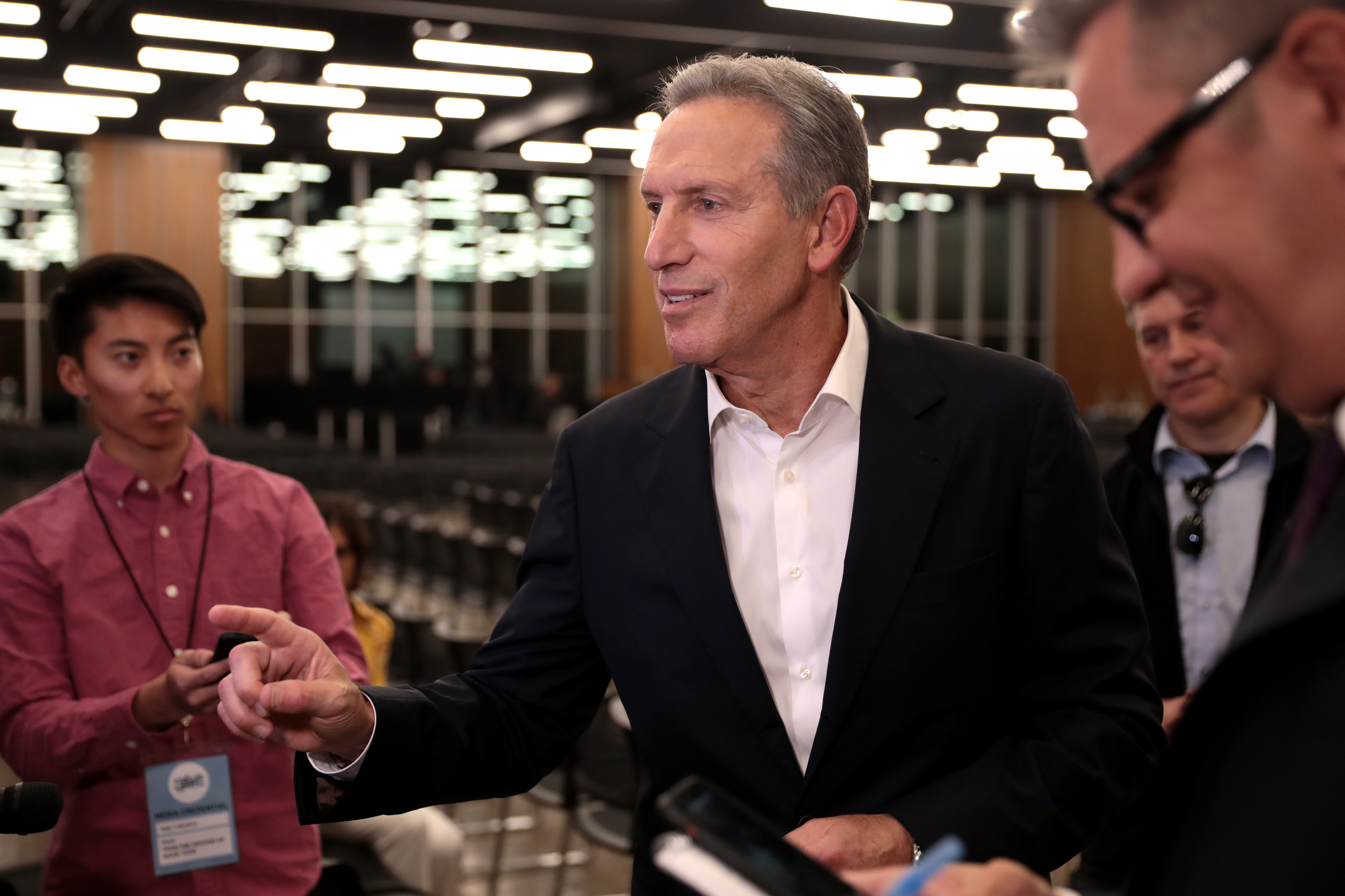 Howard Schultz, the former CEO of Starbucks, speaking with the media at an event titled "From the Ground Up" at the Student Pavilion at Arizona State University in Tempe, Arizona.